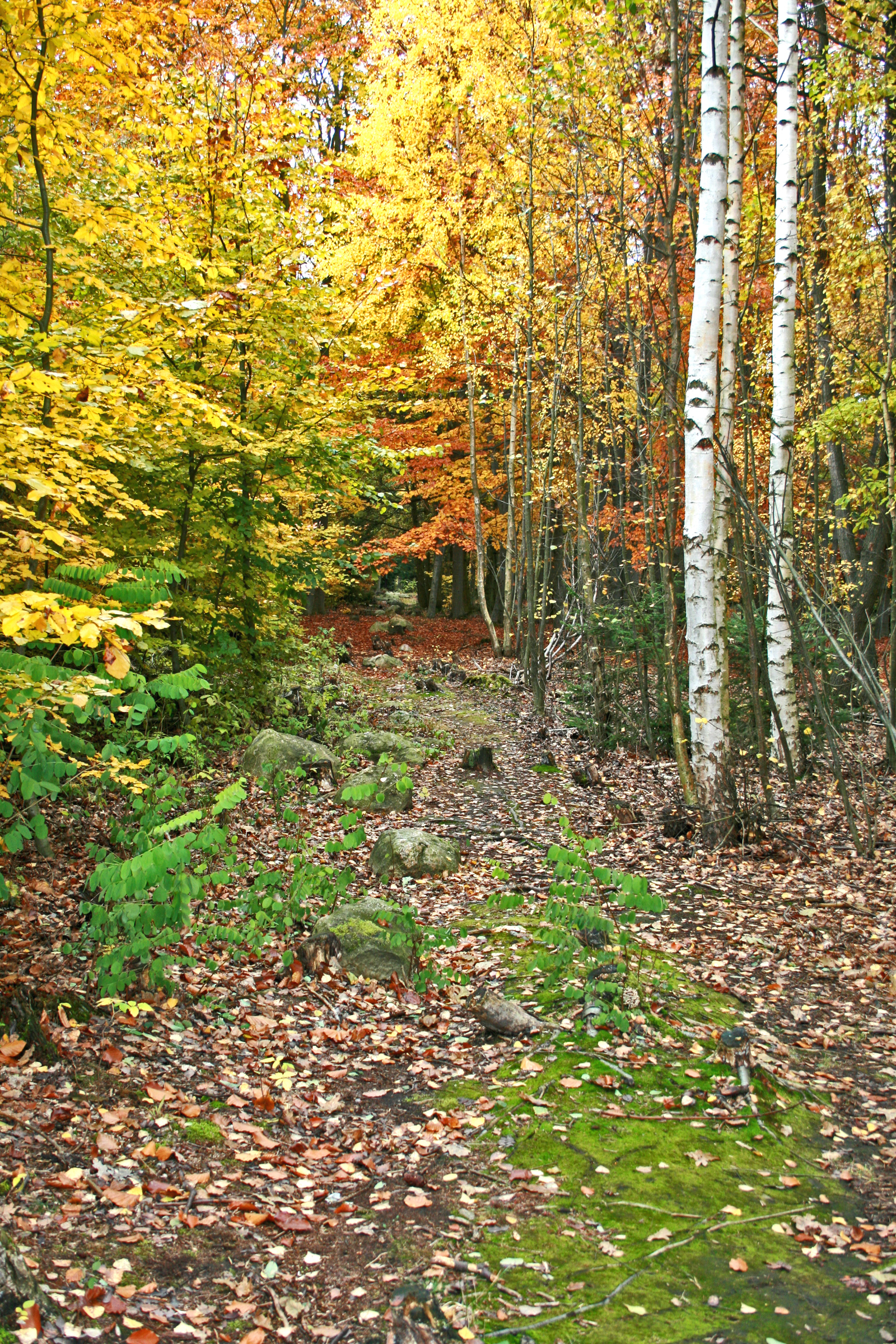 Stone rows near Kounov in central Bohemia, Czech Republic